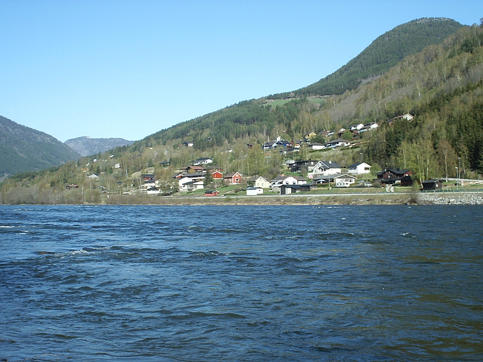 Part of Otta, Norway with the river Otta in the front. Norwegian: Del av Otta med Ottaelva foran.